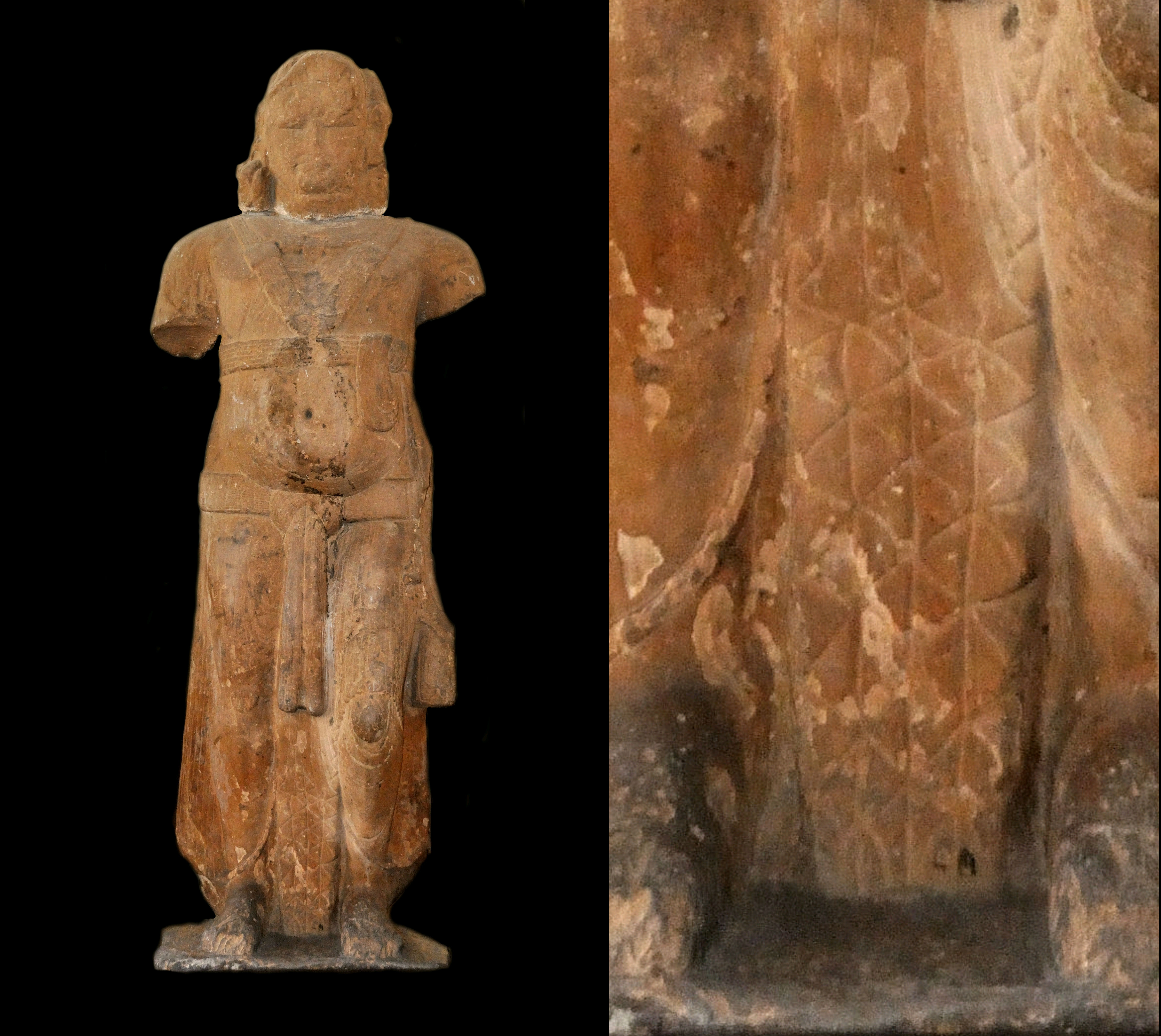 Yaksha Parkham Mathura with detail. The hem of the dress here detailed is sometimes considered as derived from Greek art: "It has no local antecedents and looks most like a Greek Late Archaic mannerism" (John Boardman, "The Diffusion of Classical Art in Antiquity", Princeton University Press, 1993, p.112.)